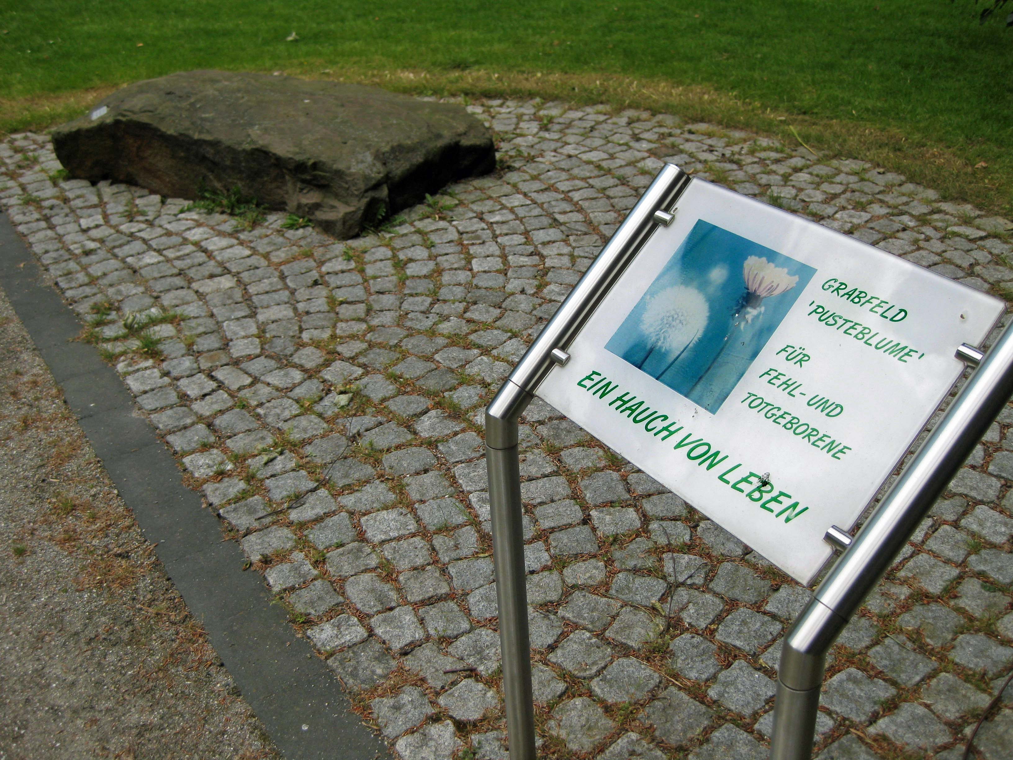 Grave box Pusteblume for miscarriage and premature births in the City south Cemetery Herne.